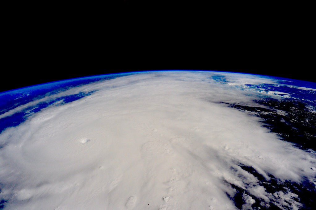 Photo of hurricane Patricia as taken and posted by Scott Telly, astronaut at the International Space Station on 23 October 2015.